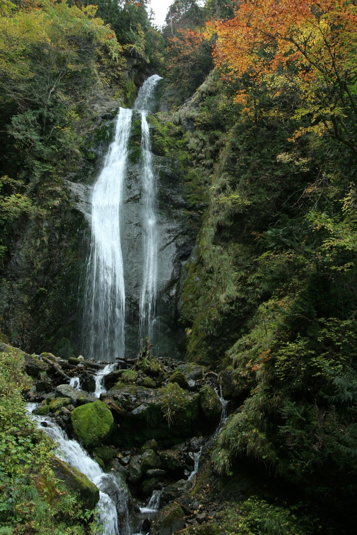 Mikaeri Falls in Dakigaeri Ravine, Kakunodate, Akita.